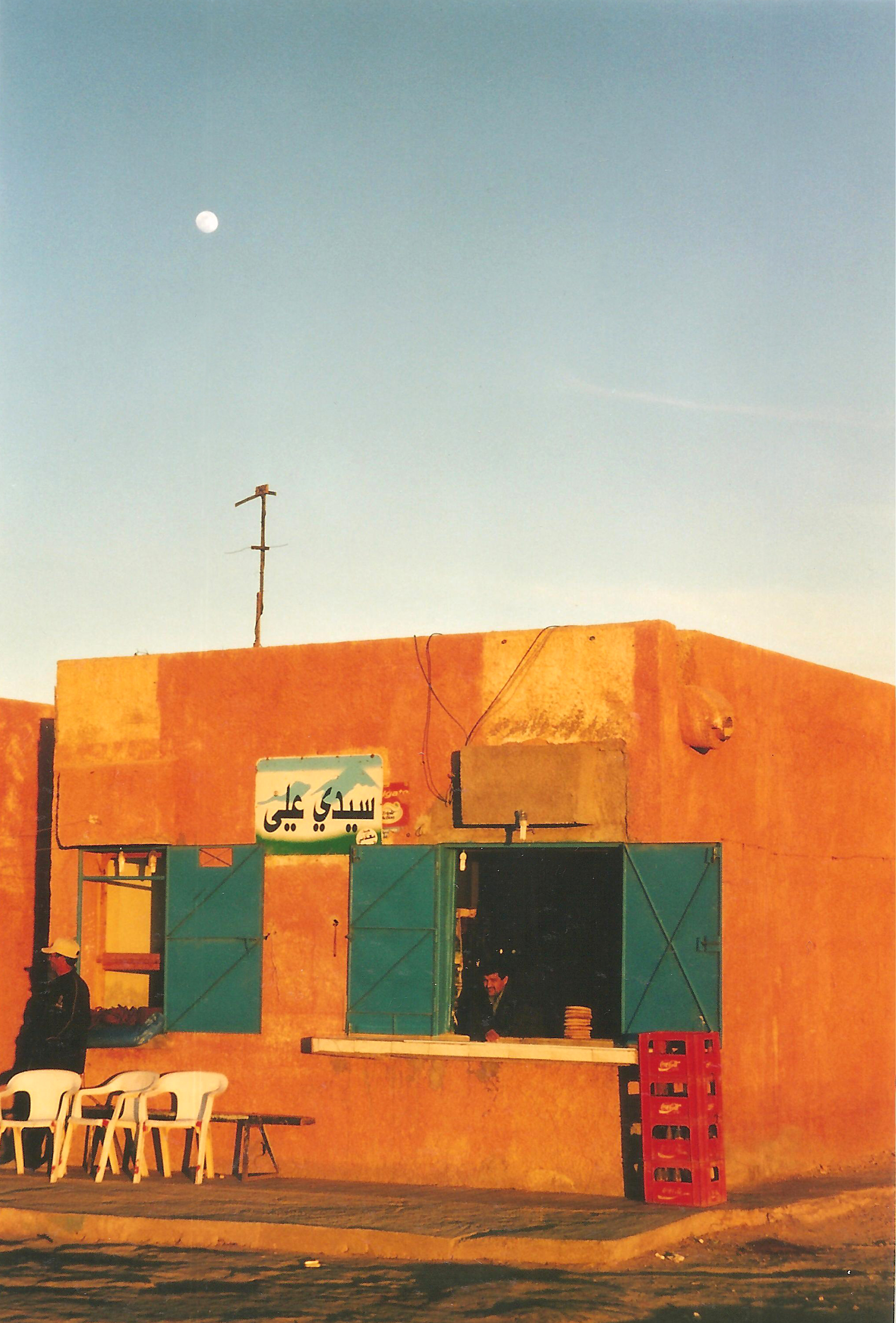 Western Sahara: small shop in El Argoub